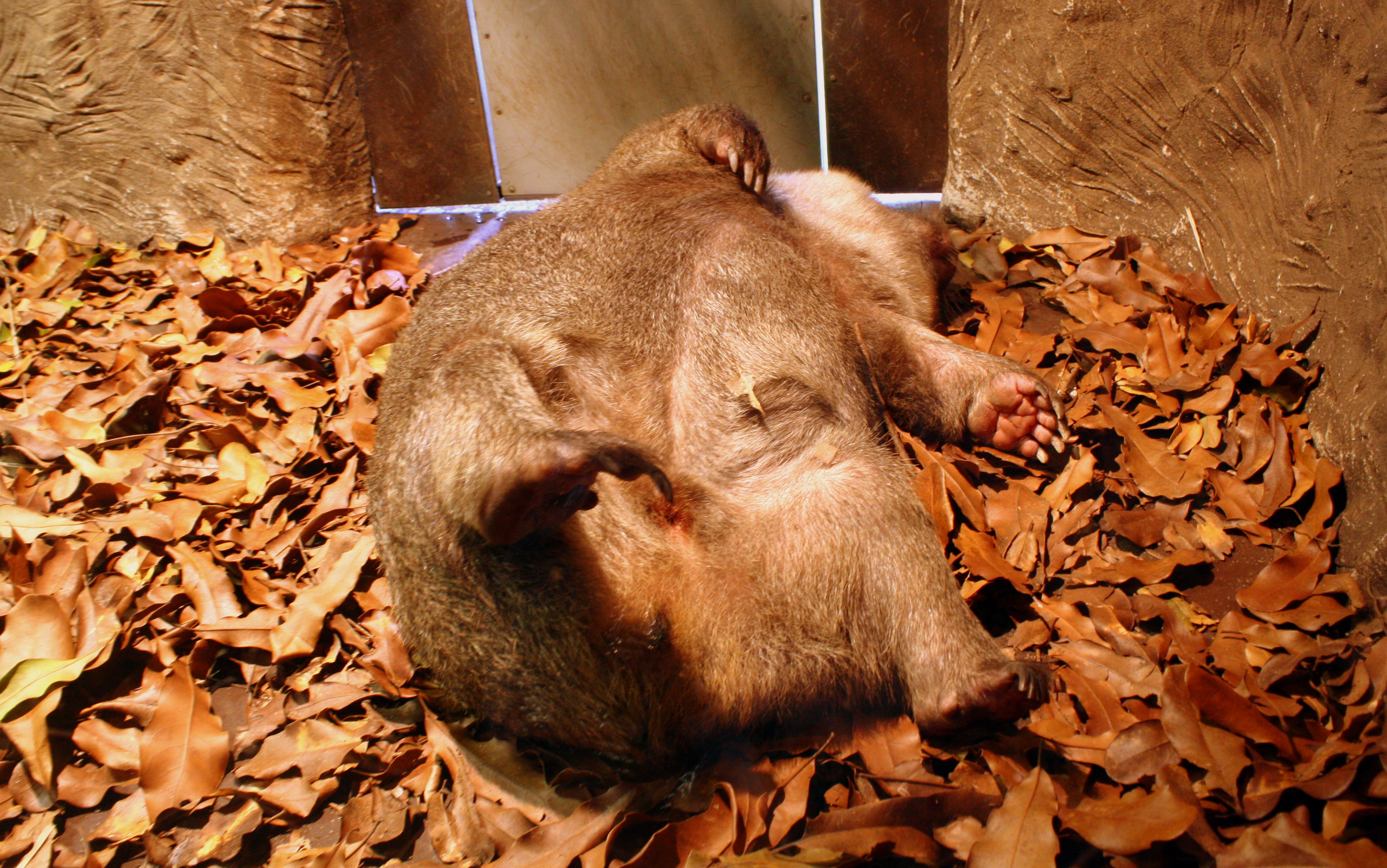 Wombat, Australia Zoo